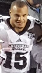 Dak Prescott after defeating Missouri on November 5, 2015